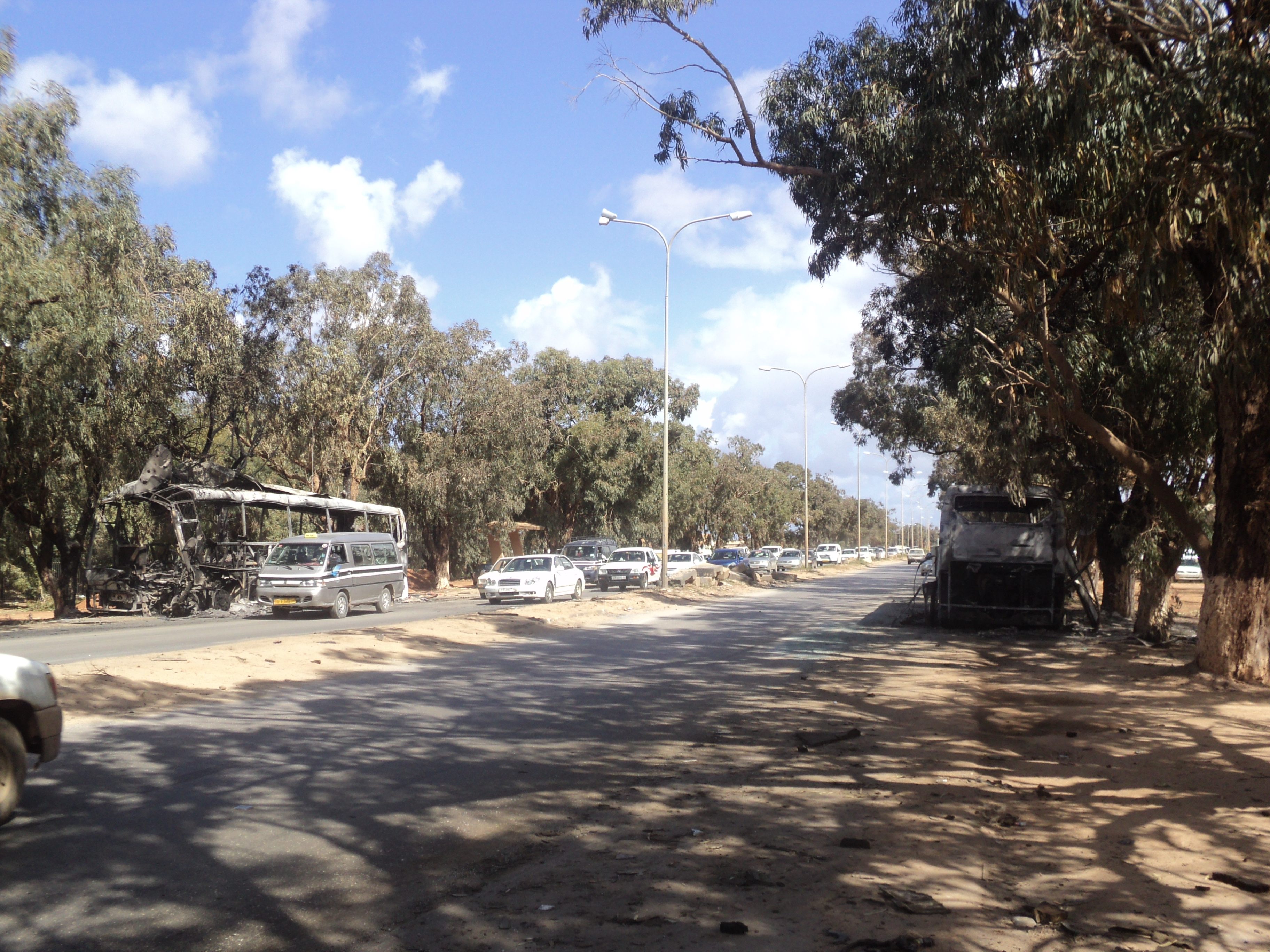 Burned buses near Garyounis university, Benghazi, possibly of pro-Qadafi forces, as they attacked Benghazi on March 19, 2011.